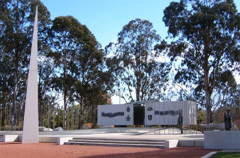 Korean War Memorial on ANZAC Parade, the principal ceremonial amd memorial avenue of Canberra, the national capital city of Australia.